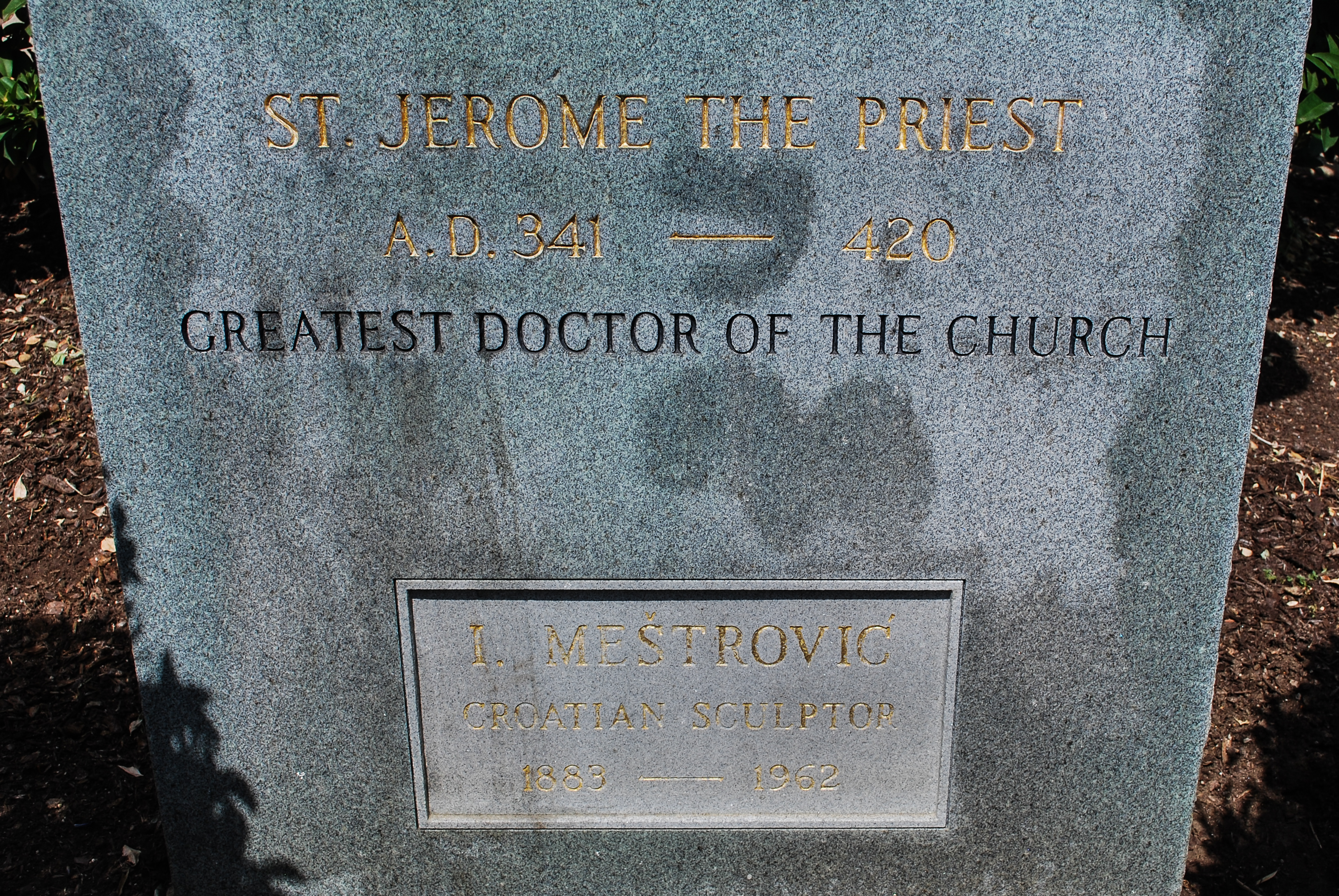 On base of statue of St. Jerome the Priest - "ST. JEROME THE PRIEST A.D. 341-420 GREATEST DOCTOR OF THE CHURCH I. MESTROVIC" at Croatian Embassy at 2343 Massachusetts Avenue, Northwest, Washington, D.C. USA taken on May 1, 2010.